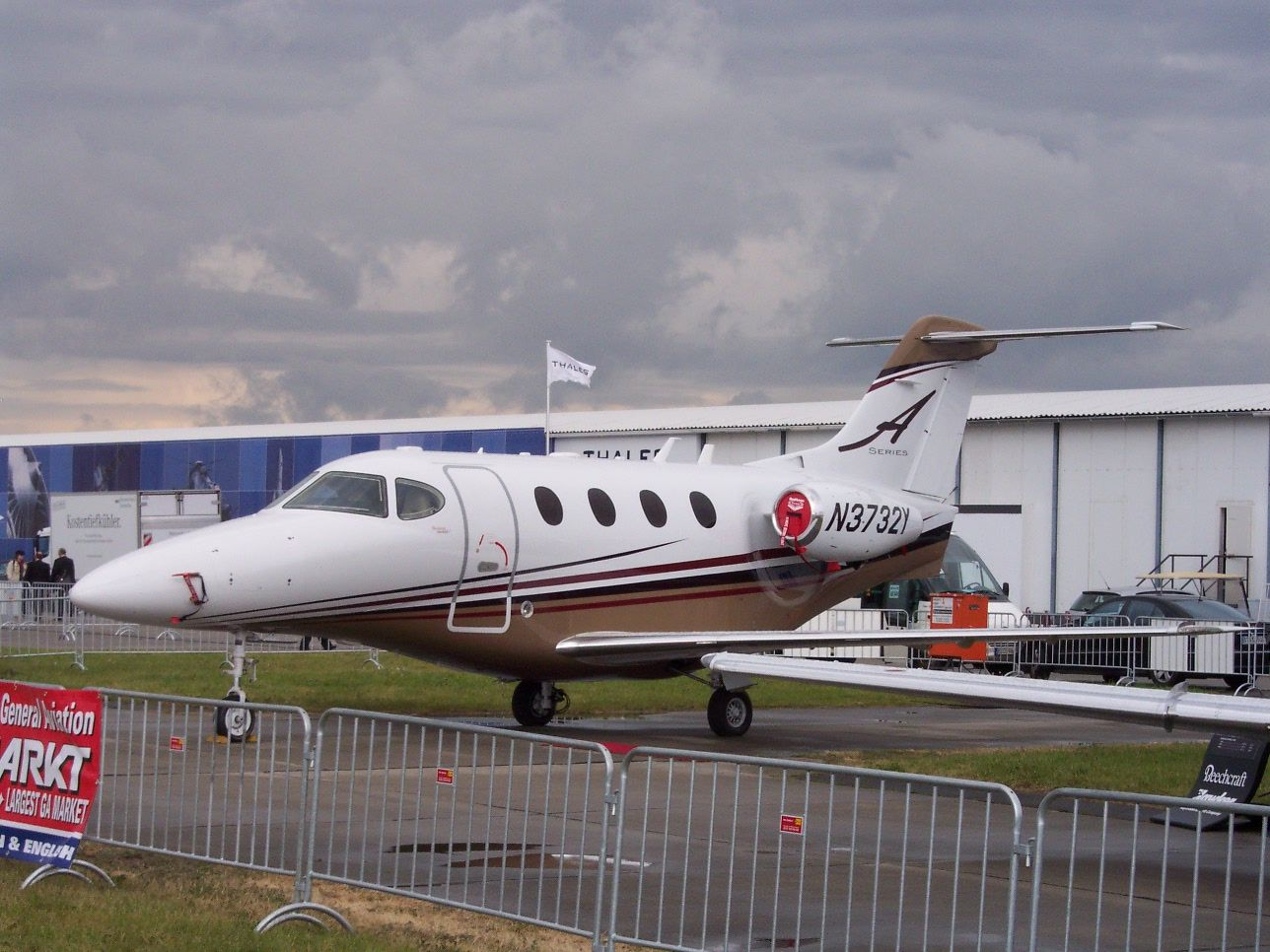 Raytheon 390 Premier 1A N3732Y, ILA 2006